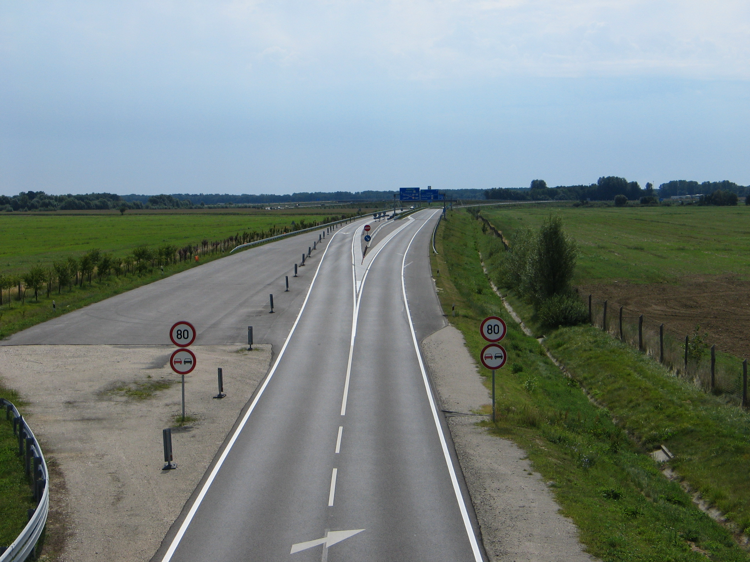 Motorway M70, Letenye, Hungary